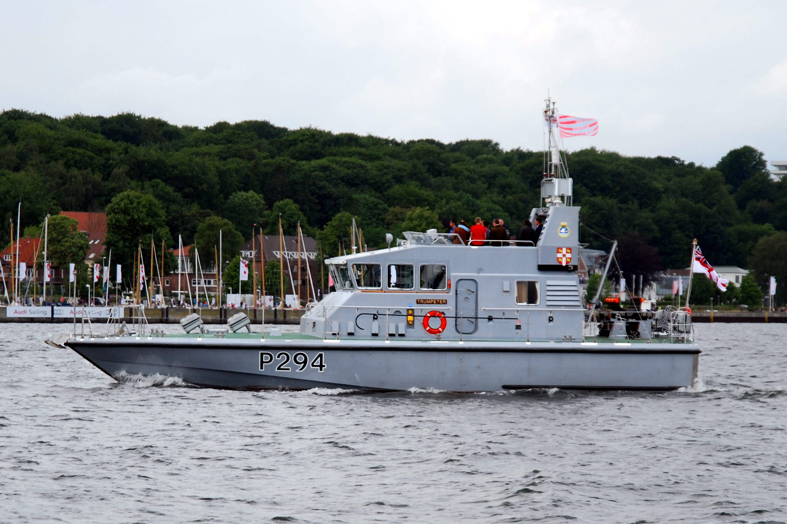 britisches Motorboot